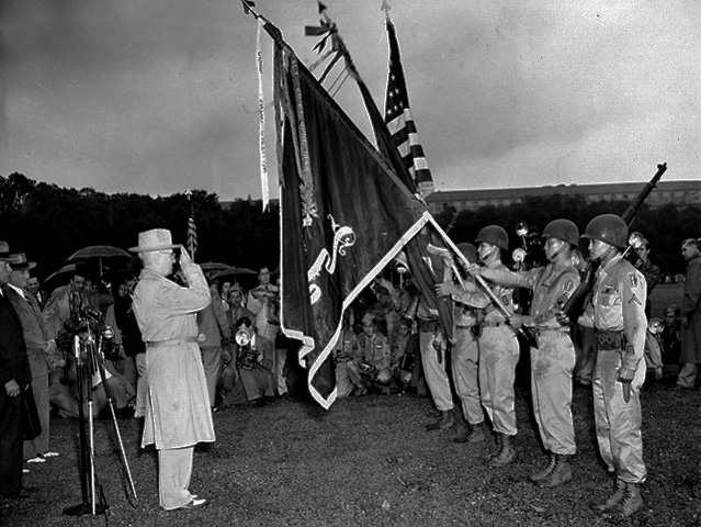 President Truman salutes the colors of the combined 100th Battalion, 442nd Infantry, during the presentation of the seventh Presidential Unit Citation. The Regimental Combat Team (less the 552d Field Artillery Battalion) received the Presidential Unit Citation for outstanding accomplishments in combat in the vicinty of Serravezza, Carrara, and Fosdinovo, Italy, from April 5 to April 14, 1945.